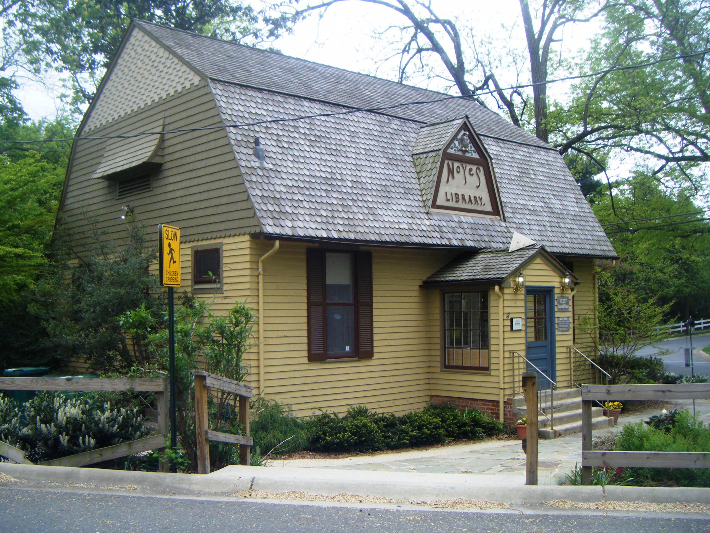 The Noyes Library, located in Kensington, Maryland, is Montgomery County's oldest library.